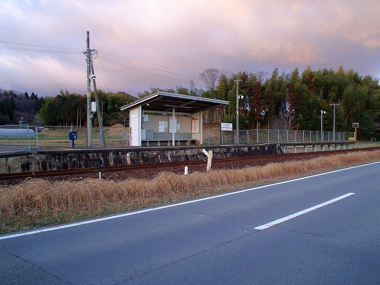 Ise-ōi Station in Mie pref, japan